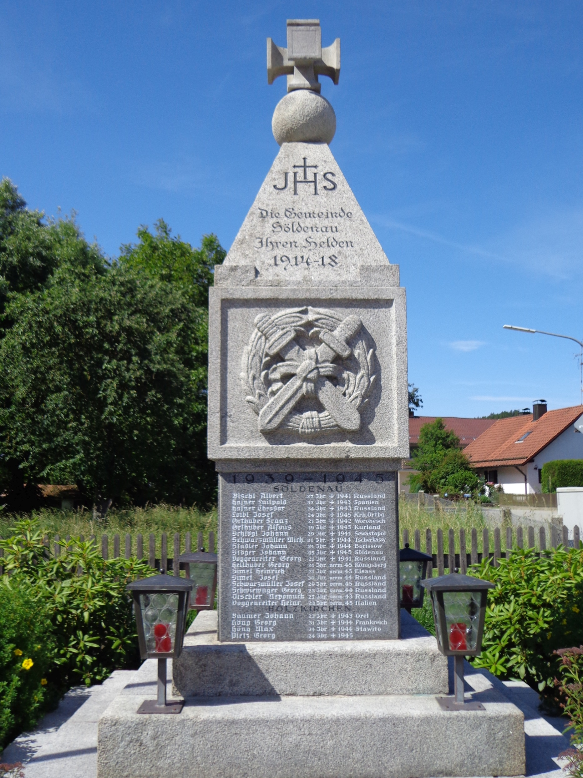 War Memorial in Söldenau (Ortenburg, Bavaria, Germany)